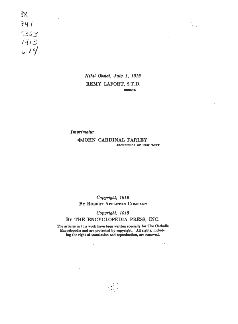 Nihil obstat and Imprimatur from The Catholic Encyclopedia, volume 14, 1913